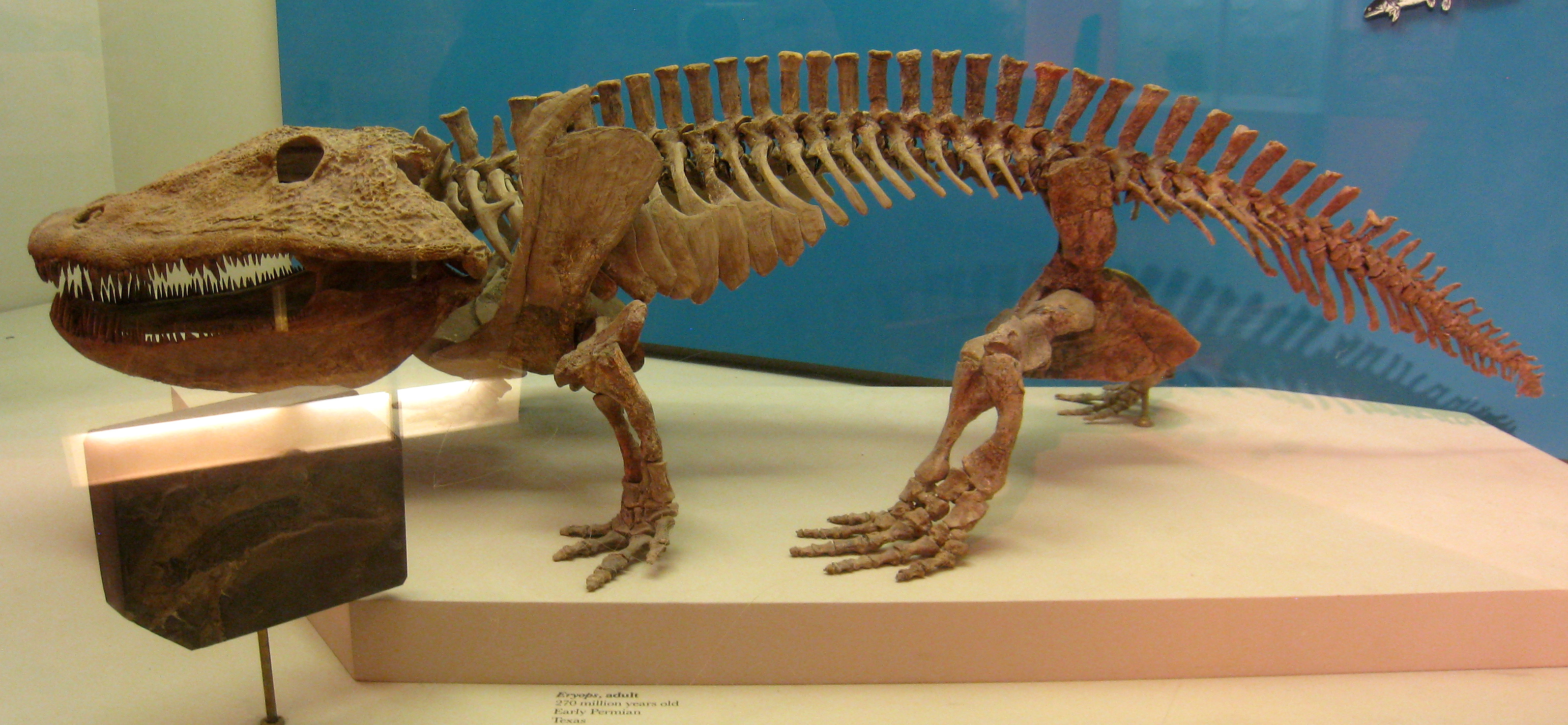 Eryops fossil specimen and tadpole (formerly known as Pelosaurus) in the National Museum of Natural History, Smithsonian Institution, Washington, DC, USA.